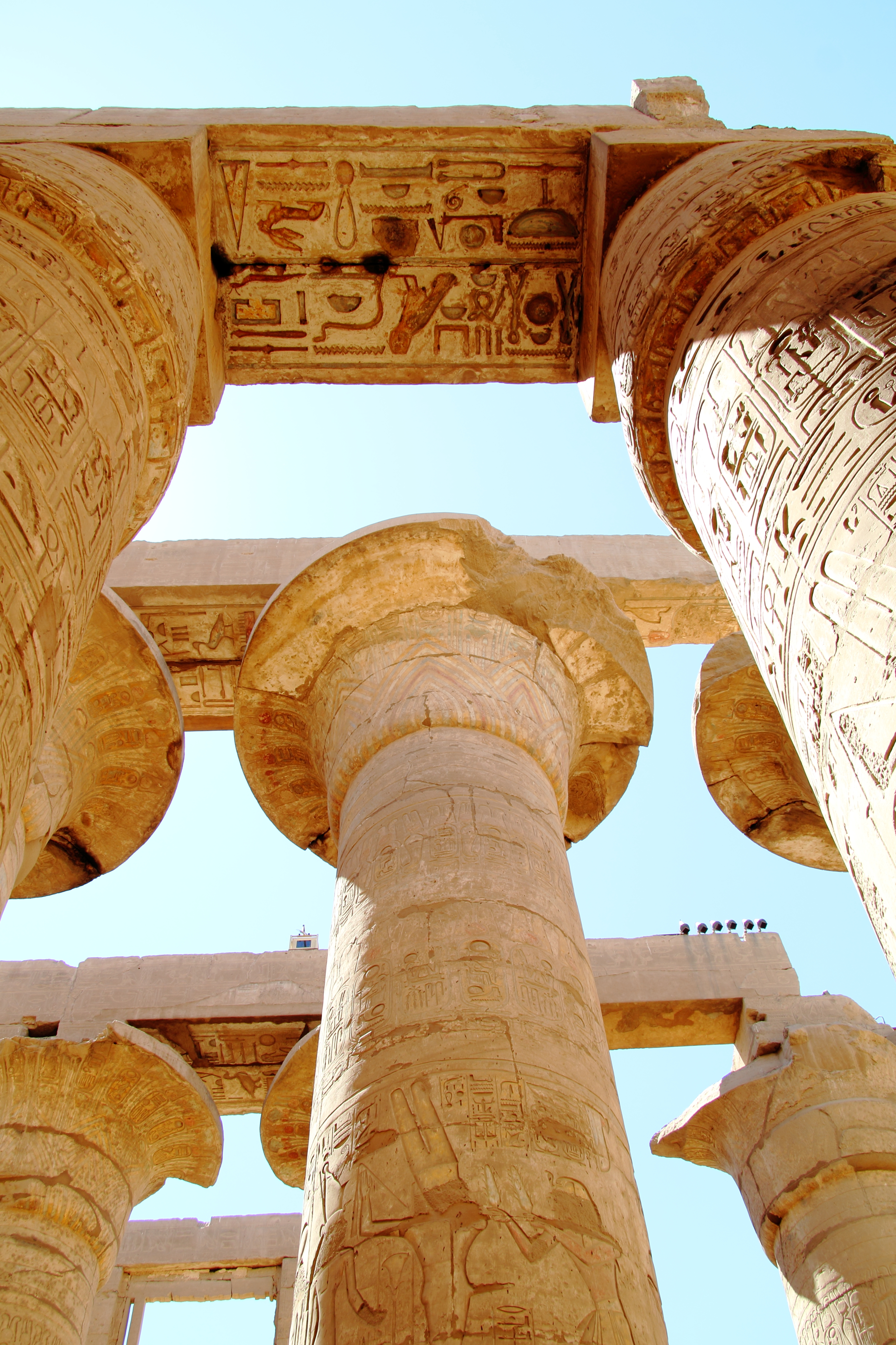 Luxor, Egypt: Karnak temple, Great Hypostyle Hall in the Precinct of Amun-Re